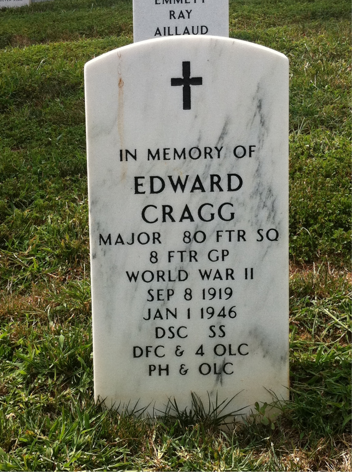 Grave of Edward "Porky" Cragg at Arlington National Cemetery